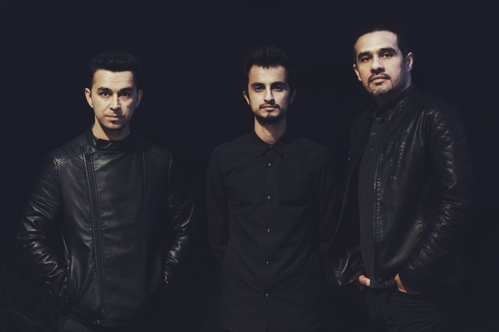 A photo of the indie rock band Kabul Dreams. The band members depicted, from left to right, are: Raby Adib, Sulyman Qardash, Siddique Ahmed.